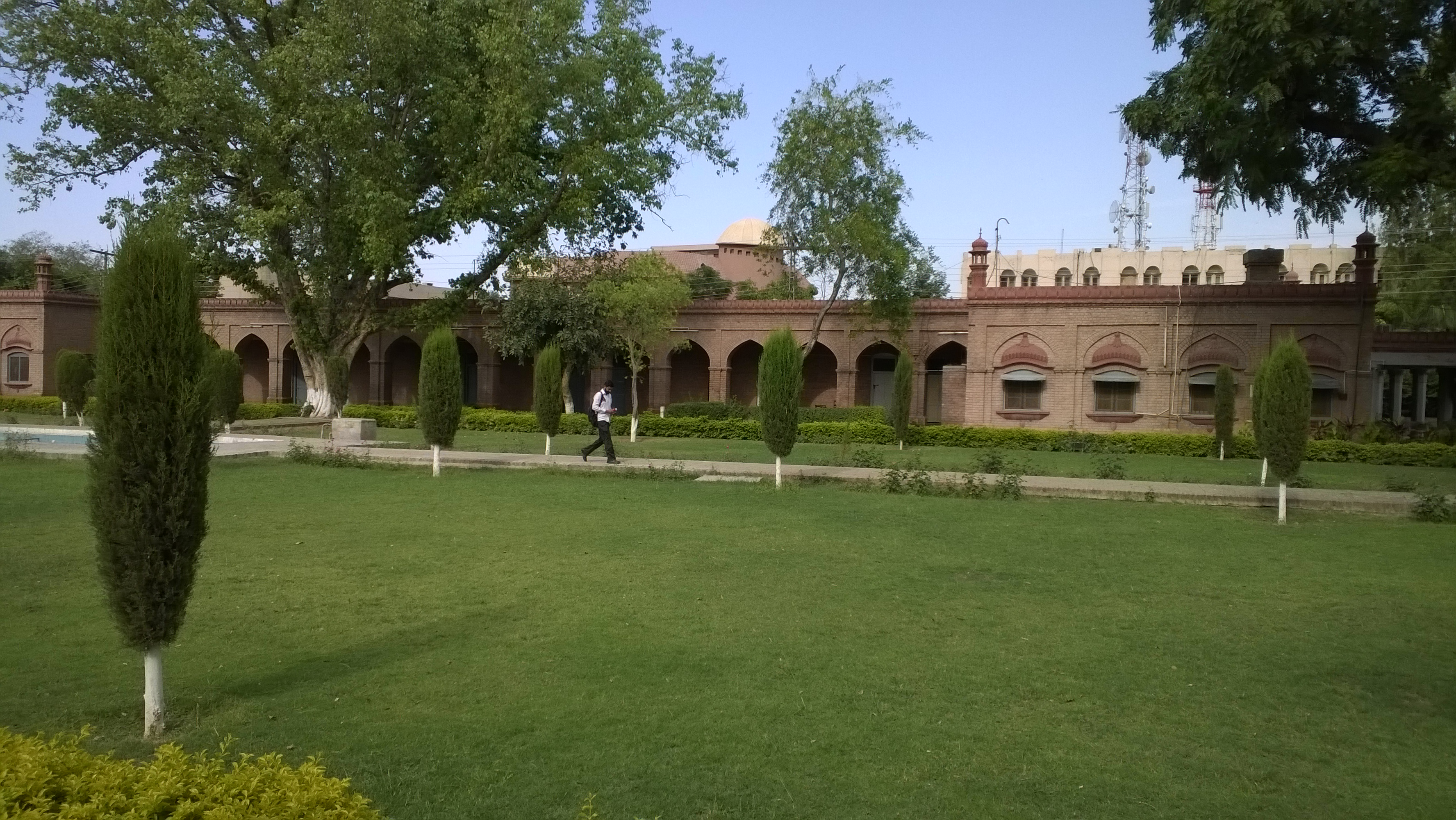 Edwardes College, Peshawar, one of the oldest institutions